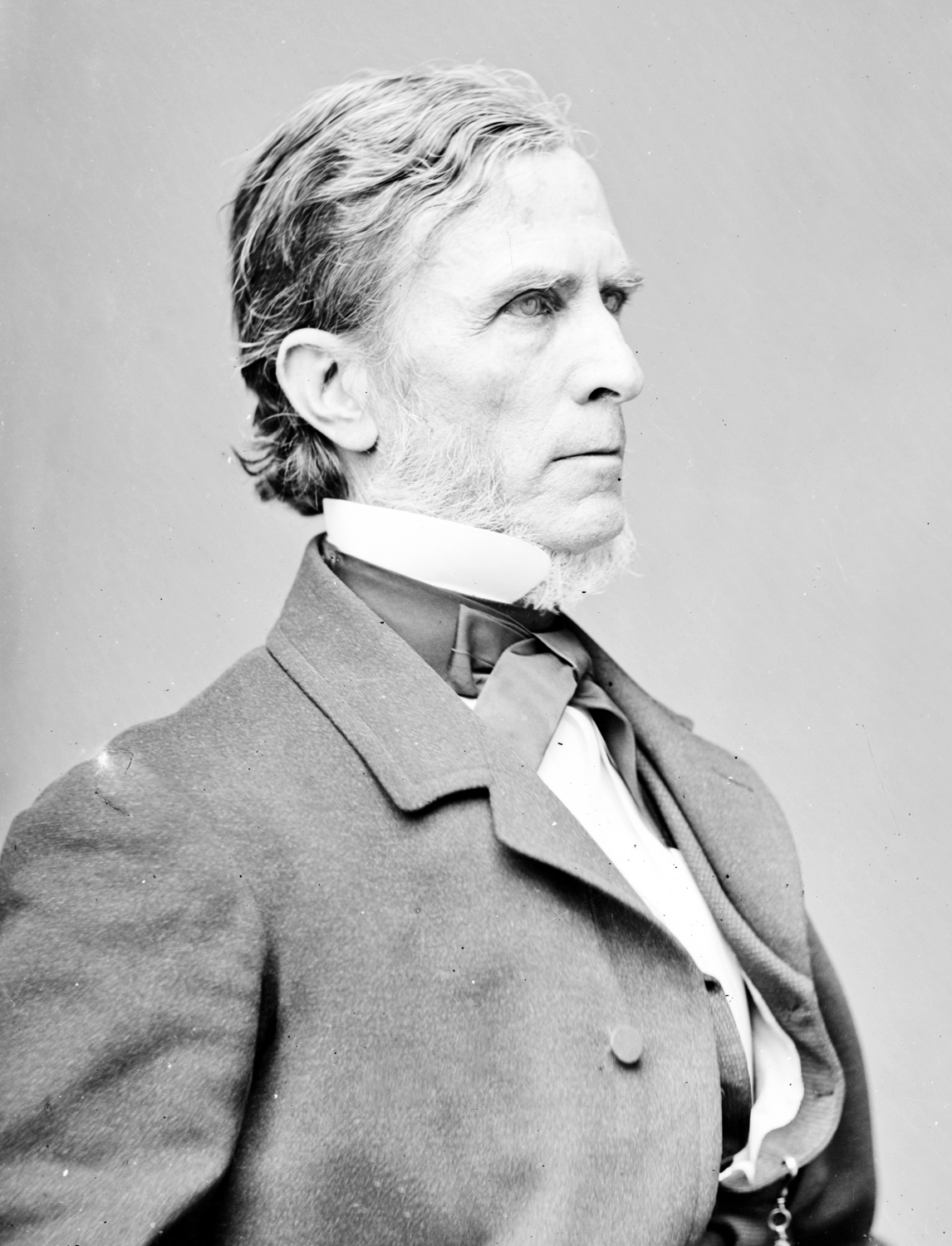 TITLE: Hon. Wm. Pitt Fessenden of Maine CALL NUMBER: LC-BH82- 4918 B [P&P] REPRODUCTION NUMBER: LC-DIG-cwpbh-02087 (b&w copy scan) No known restrictions on publication. MEDIUM: 1 negative : glass, wet collodion. CREATED/PUBLISHED: [between 1855 and 1865] NOTES: Title from unverified information on negative sleeve for LC-BH82-4198 A. Forms part of Brady-Handy Photograph Collection (Library of Congress). FORMAT: Portrait photographs 1850-1870. Glass negatives 1850-1870. REPOSITORY: Library of Congress Prints and Photographs Division Washington, D.C. 20540 USA DIGITAL ID: (b&w scan) cwpbh 02087